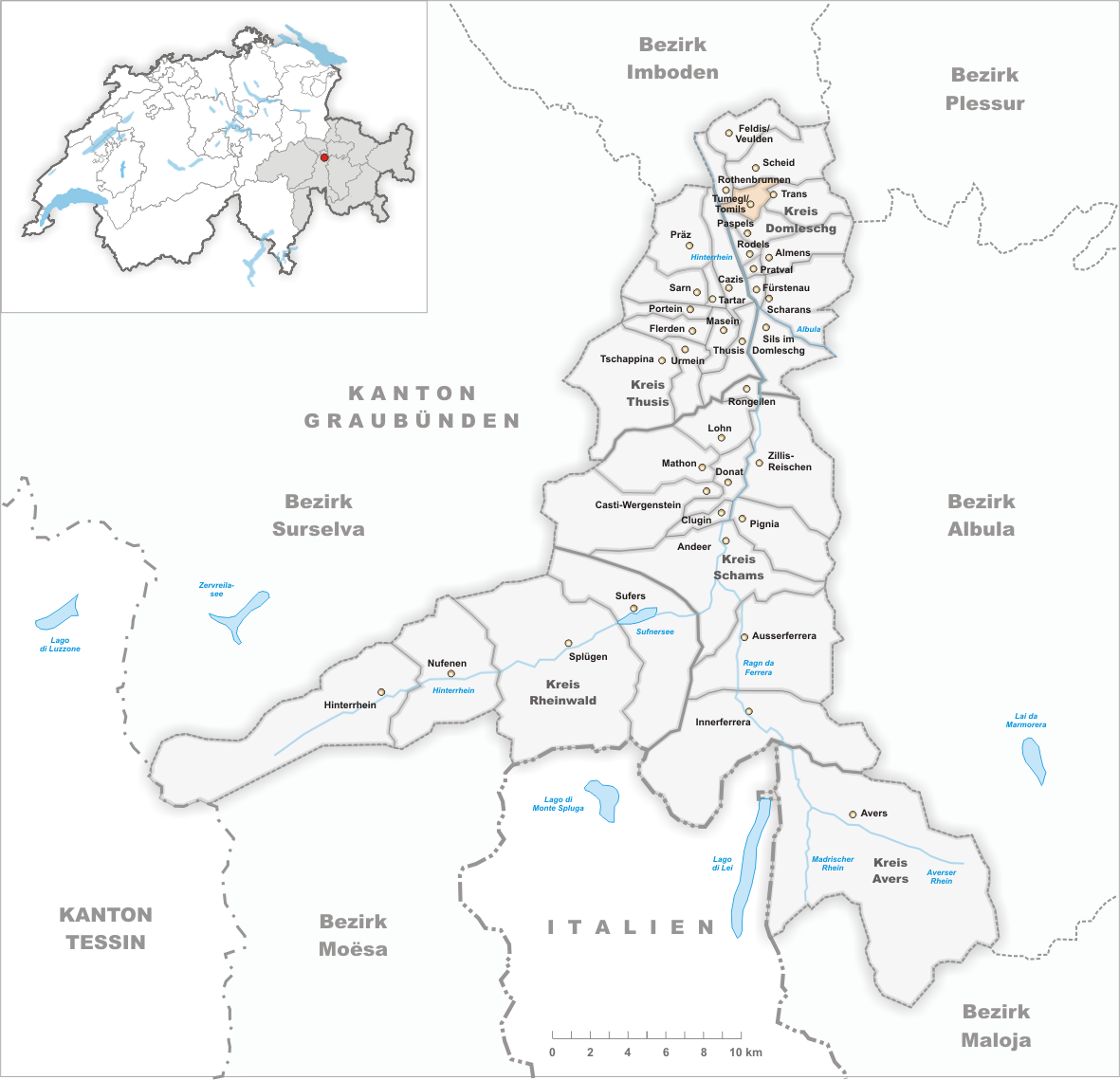 Municipality Tumegl Tomils